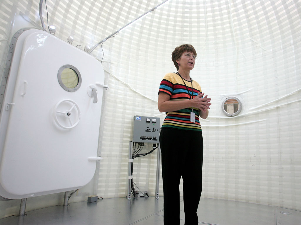 Inflated lunar habitat to be used by the NASA.